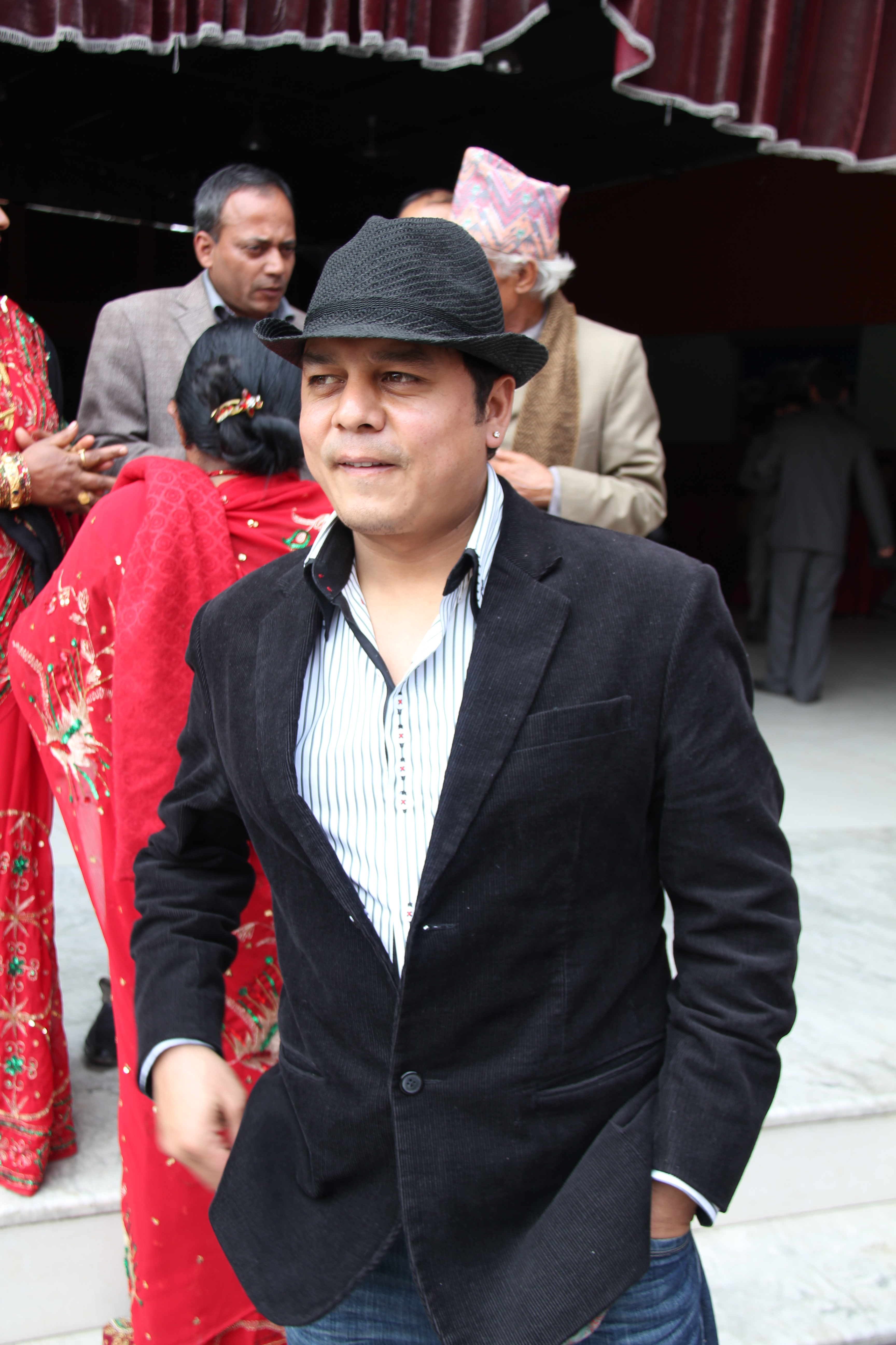 Dilip Rayamajhi in a Marriage Program in Kathmandu January, 2014